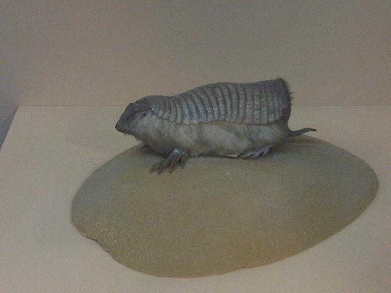 Taxidermied Pink Fairy Armadillo (Chlamyphorus truncatus) at the Natural History Museum in London.